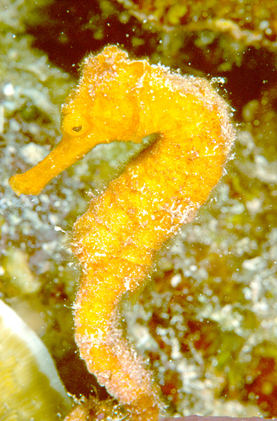 Seahorse, Turneffe Islands, Belize. Image taken by Clark Anderson/Aquaimages.